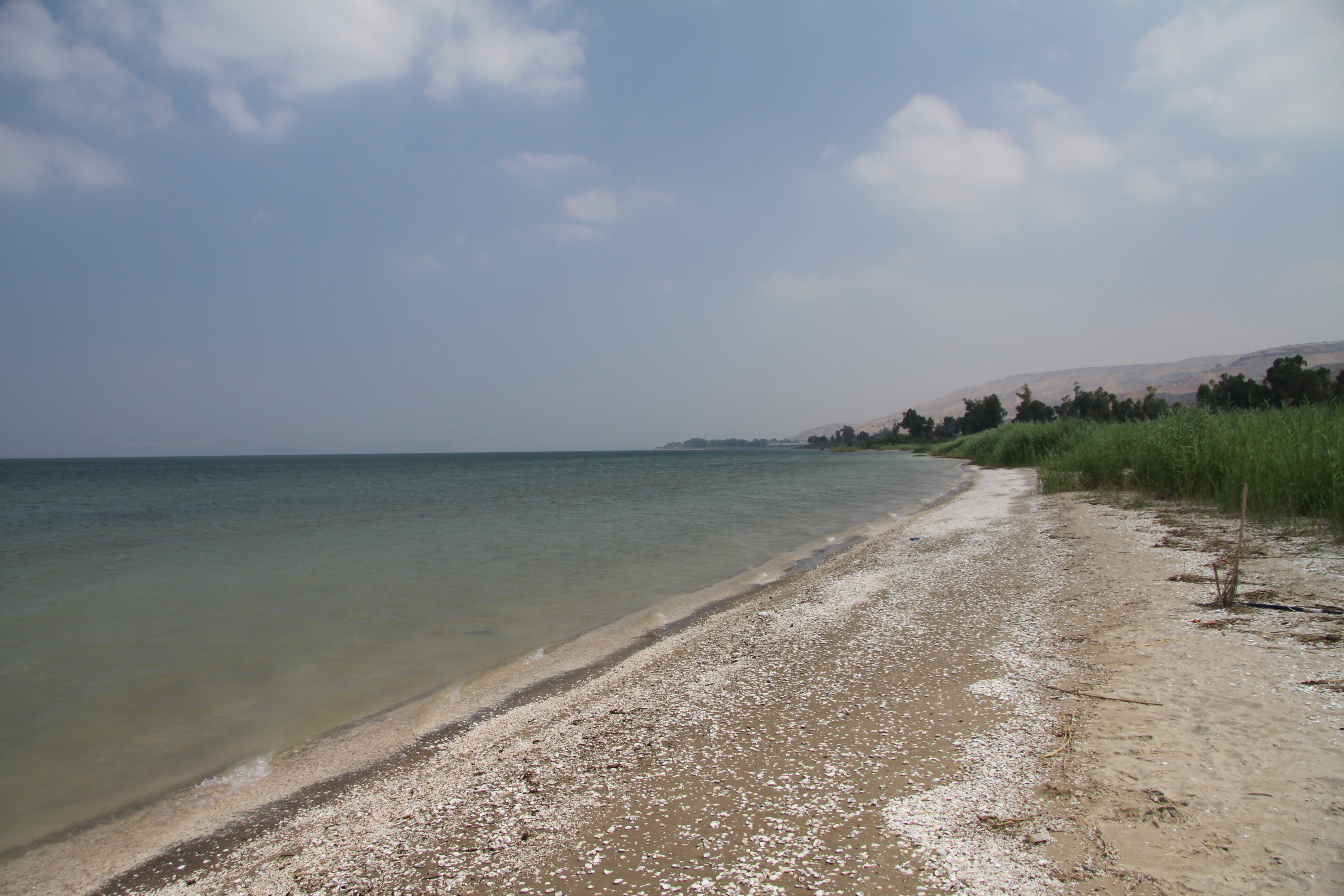 Beach of Sea of Galilee in summer 2011 in Israel